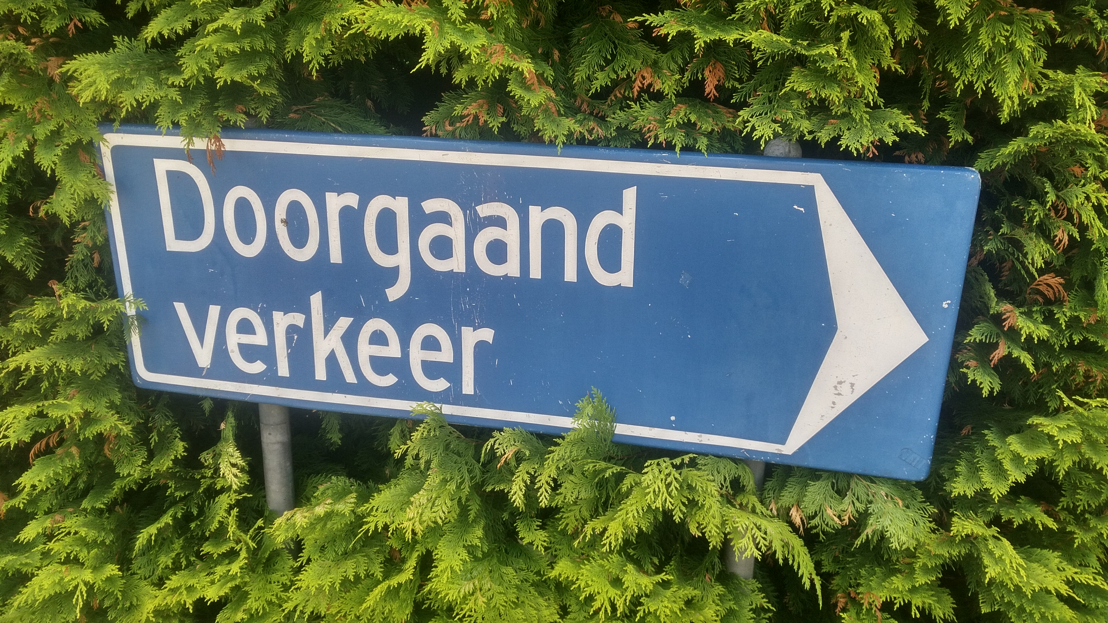 A local traffic sign in the Groninger village of Oude Pekela.